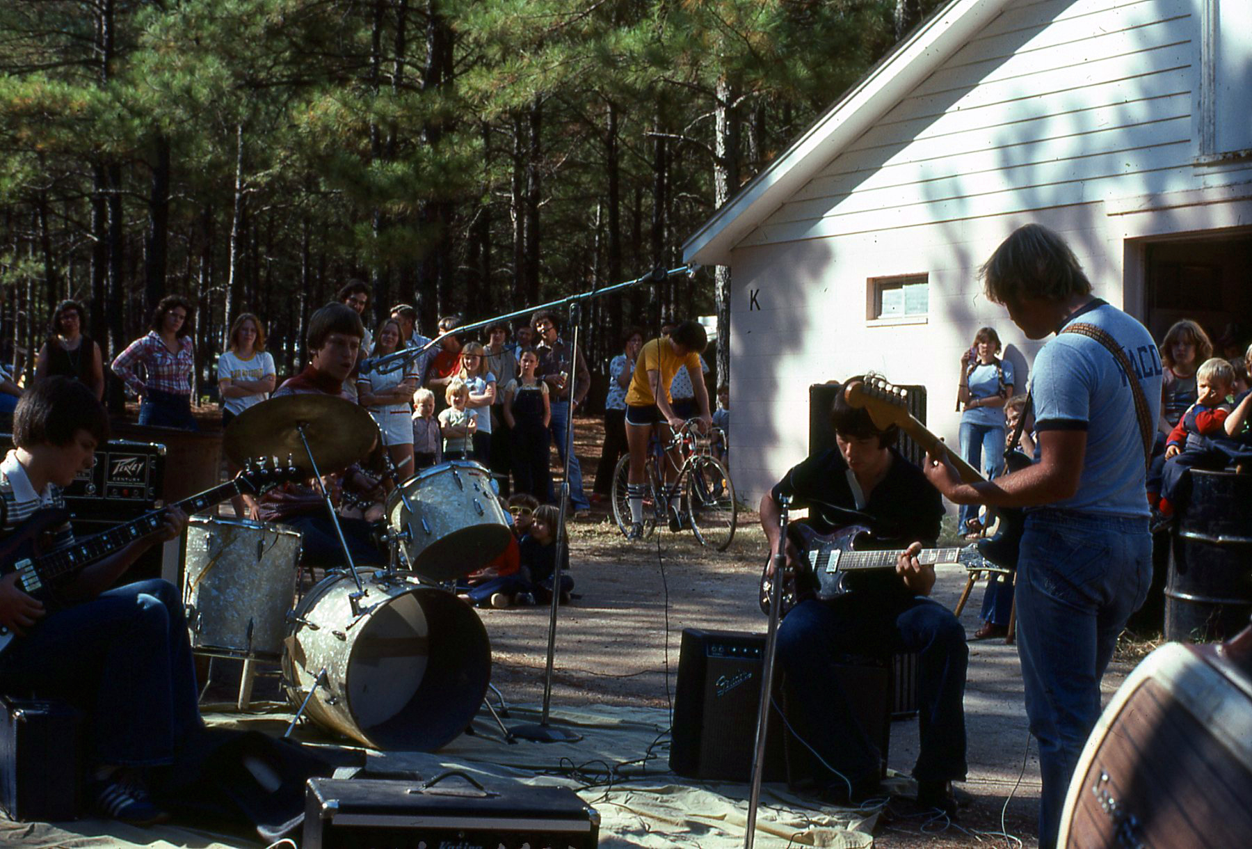 Band playing at Christian Feast of Tabernacles, WCG, Big Sandy, TX 1978